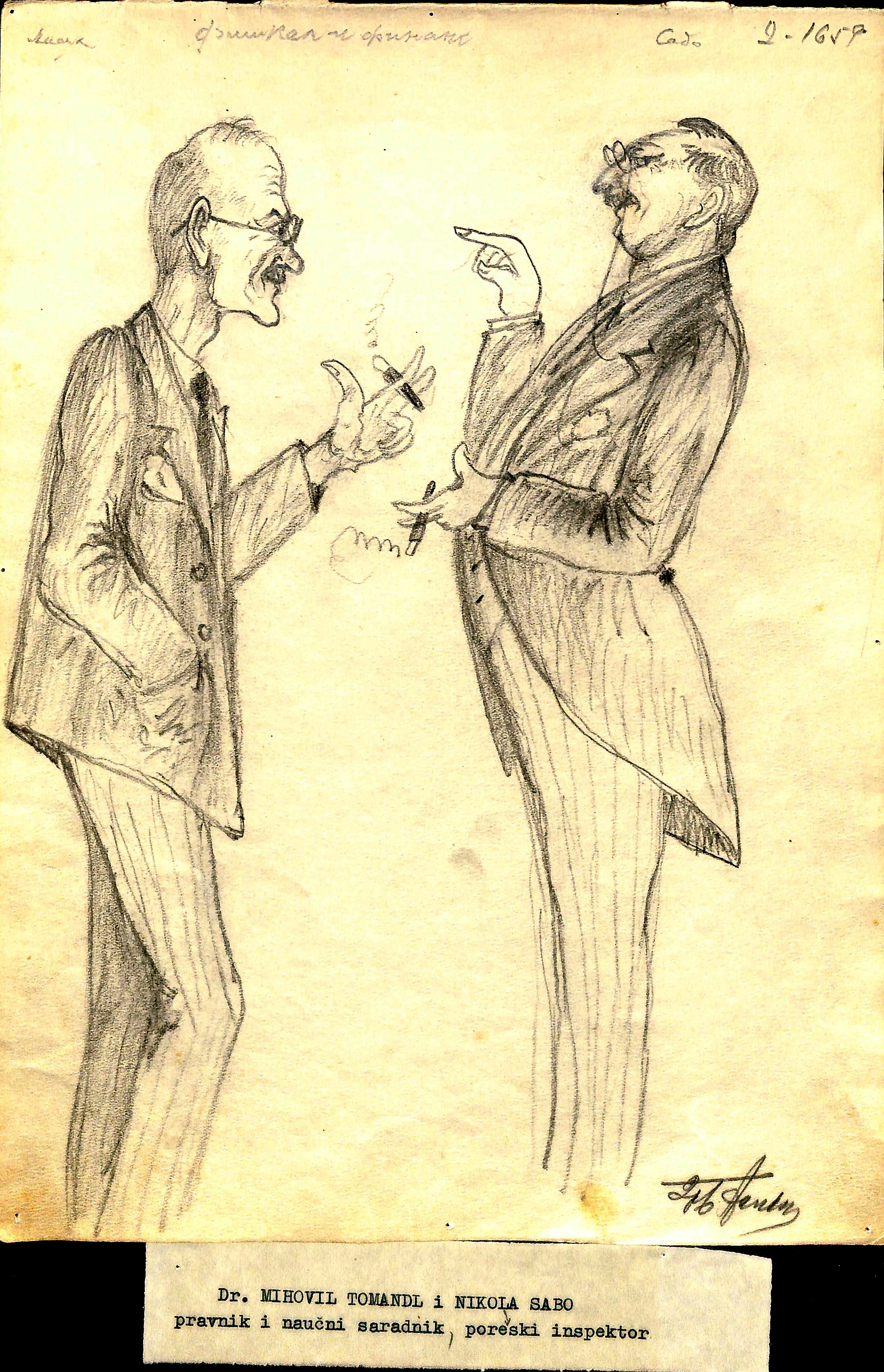 caricature of dr Tomandl and Nikola Sabo